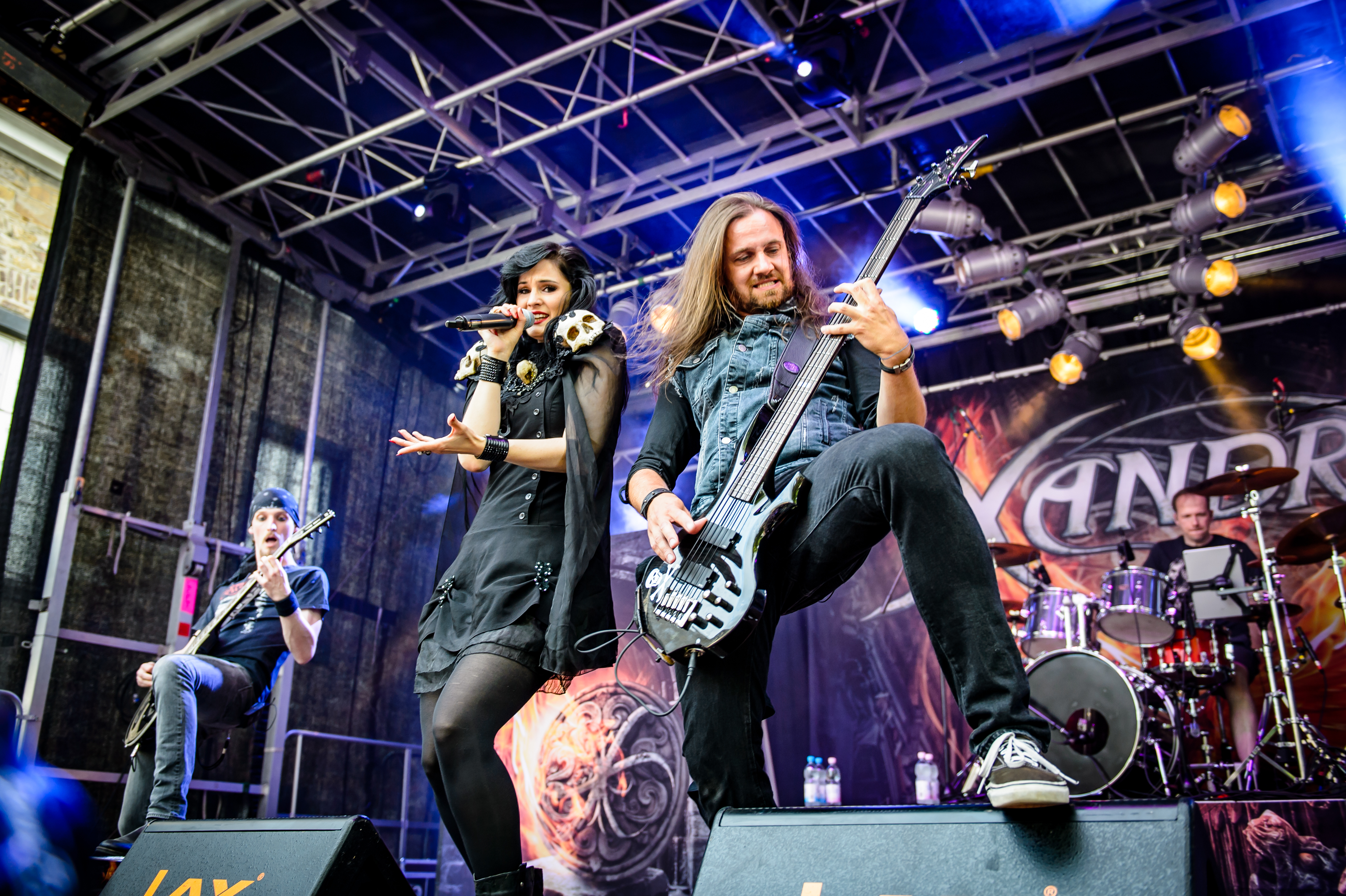 Xandria; Castle Rock Festival 2016